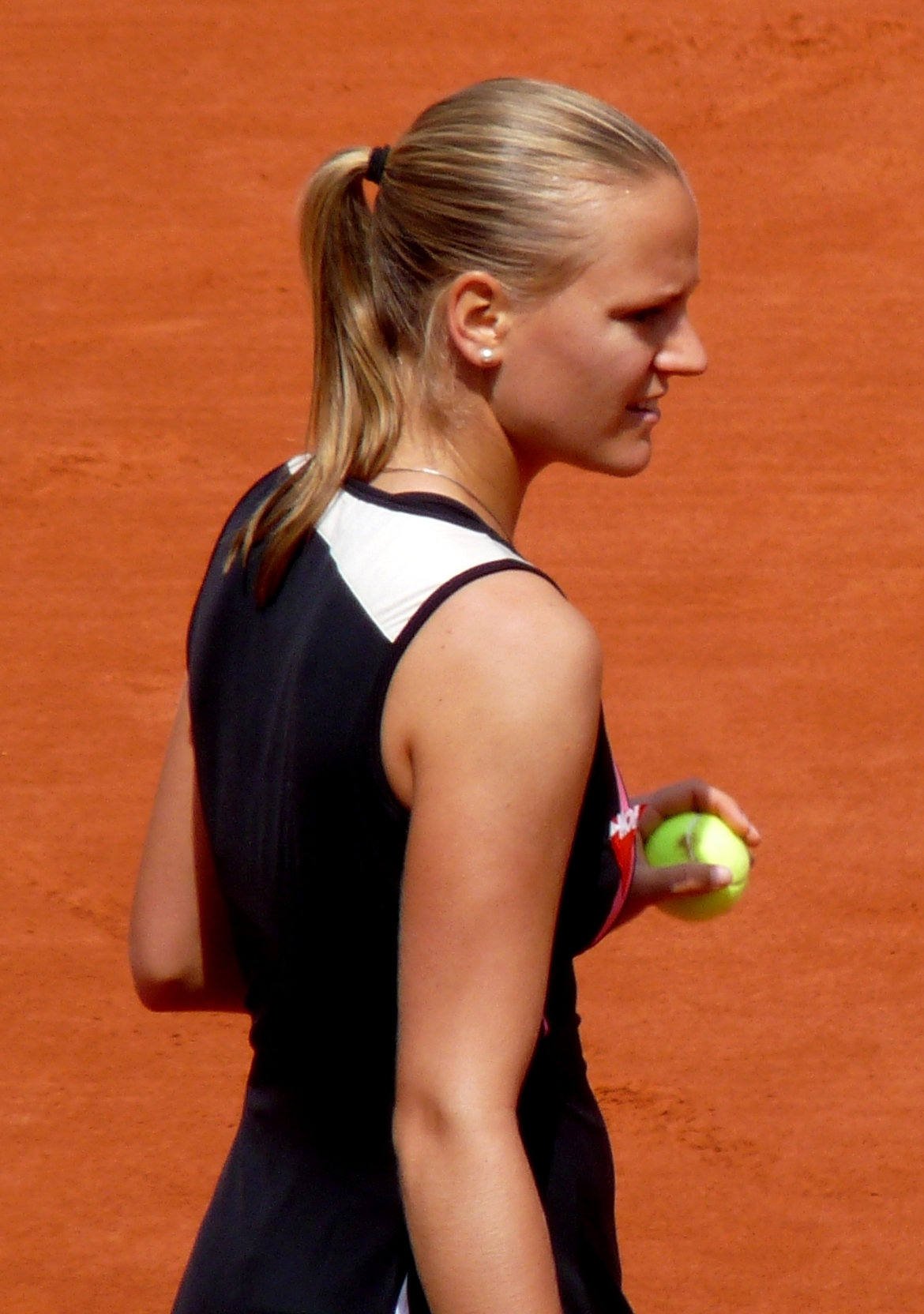 Ágnes Szávay at 2009 Roland Garros, Paris, France